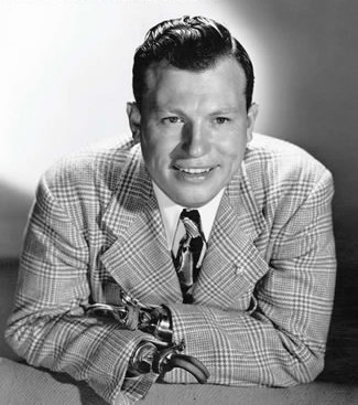 Studio publicity photo of Harold Russell